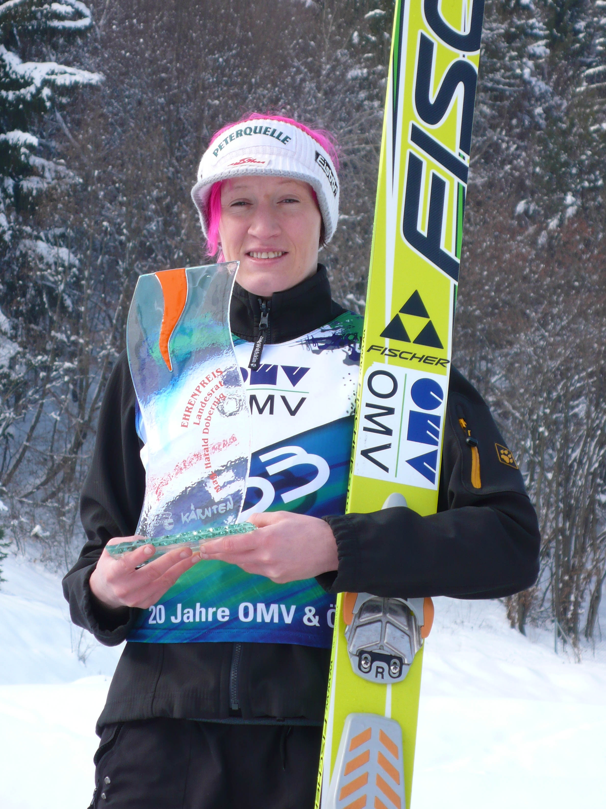 The podium ceremony during the Ski jumping Continental Cup in Villach on the 2010-02-14 : 2nd Daniela Iraschko.